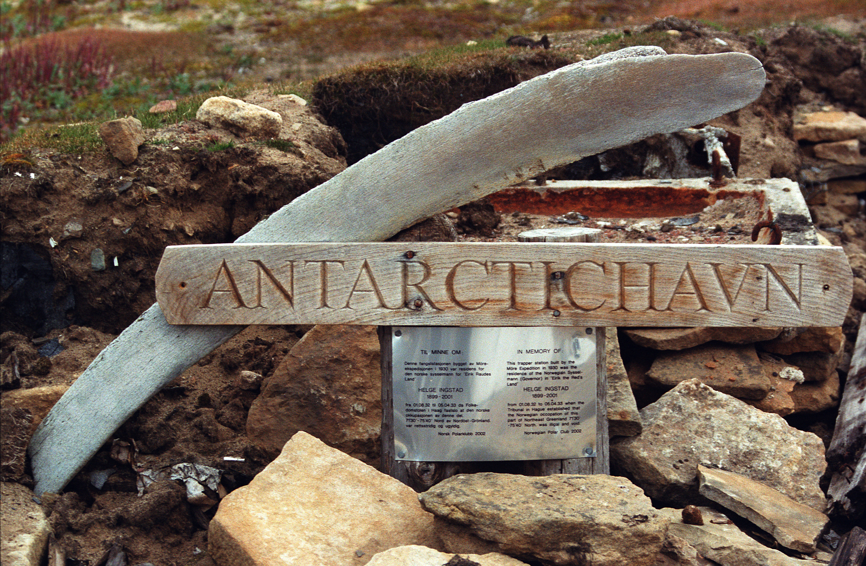 Board in memory of Helge Ingstad. Antarctic Havn, Northeast Greenland